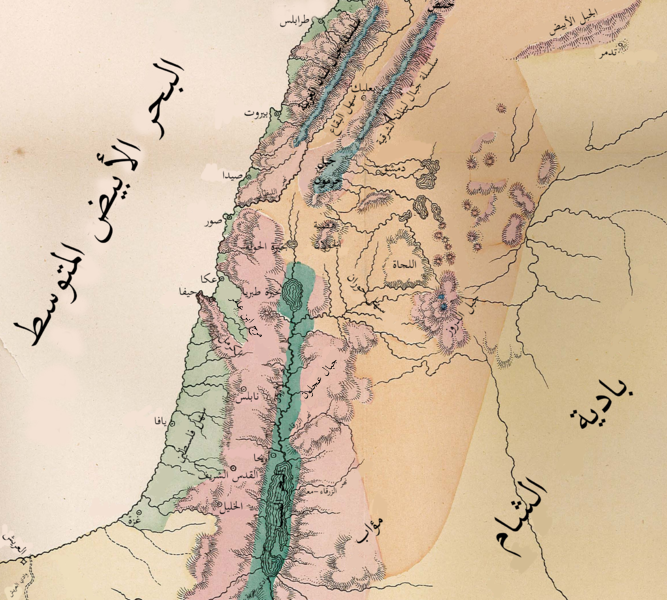 Map of the Levant (Natural or greater Syria) in Arabic. Remade map from an original found in the book: Flora of Syria Palestine and Sinai: a handbook of the flowering plants and ferns native and naturalized from the Taurus to Ras Muhammad and from the Mediterranean Sea to the Syrian desert.)